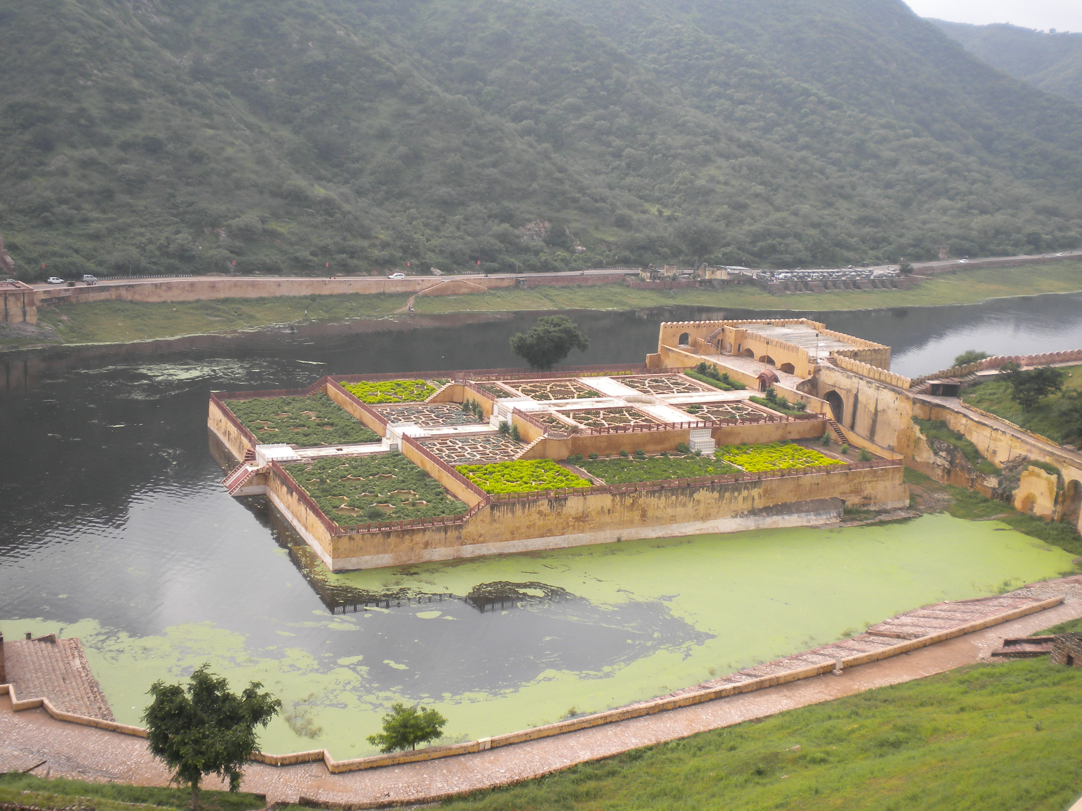 Mahota Lake and Garden of Amber Fort Jaipur